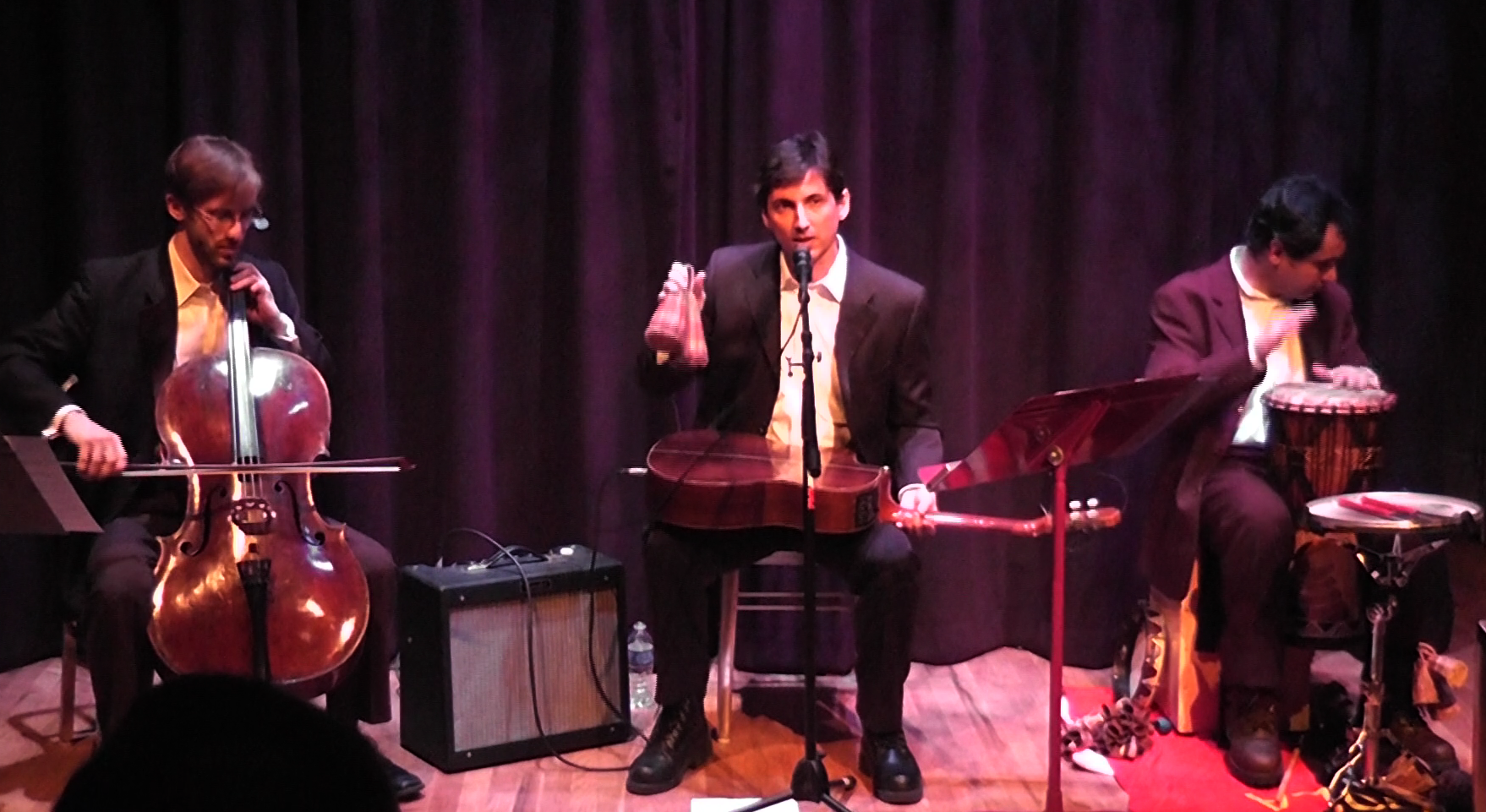 Joao MacDowell Trio performing in New York, February, 2011